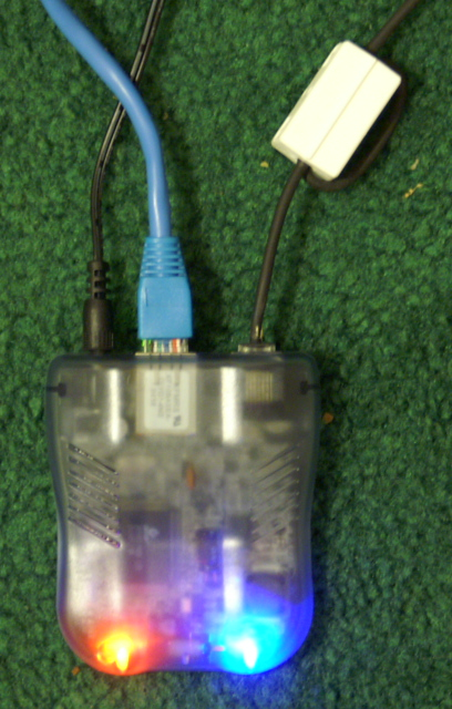 Digium's IAXy, a POTS/IAX2 telephony bridge This is a type of analog telephony adapter. This one currently has an IP address and IAX2 connection, as shown by the single non-flashing blue light. (you can tell that it isn't flashing, right?) The phone is in use, as indicated by the solid orange light.